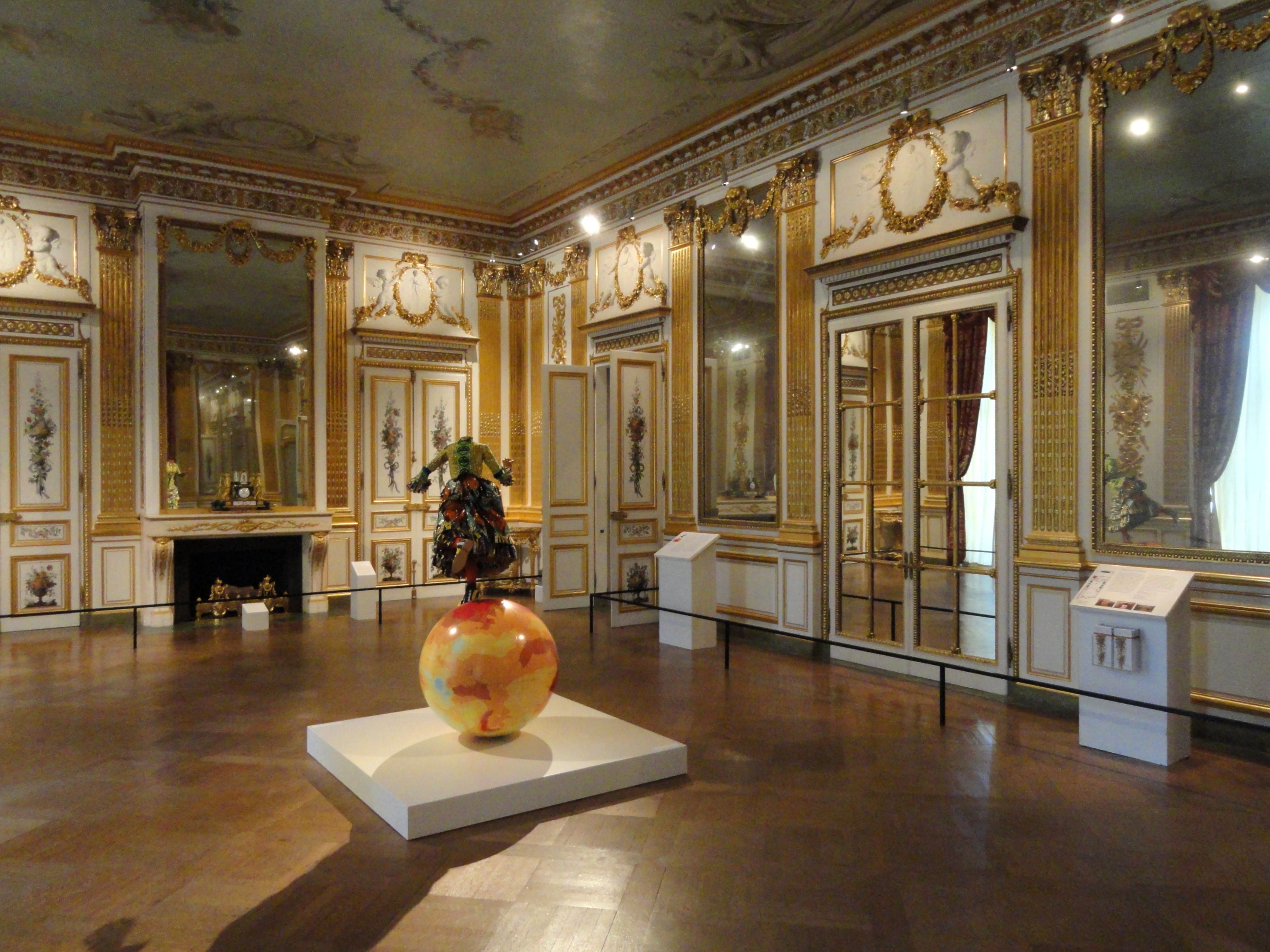 Interior view of the Corcoran Gallery of Art, Washington, D.C., USA. Room designed by Jean-François-Thérèse Chalgrin. There were no prohibitions against photography in the museum. Artwork is in the public domain because the artist died more than 70 years ago.